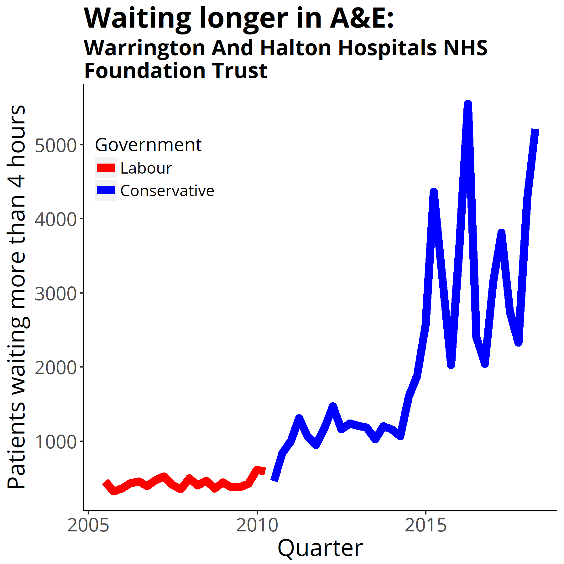 en|1=Four-hour target in the emergency department quarterly figures from NHS England[1]